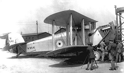 The w}Blackburn Dart was a British carrier-based torpedo bomber biplane, manufactured by Blackburn Aircraft, which first flew in 1921. The Dart was the standard single-seat torpedo bomber used by the Fleet Air Arm from 1923 until 1933. A modified variant was also sold to Greece, where they served with the Greek Navy.